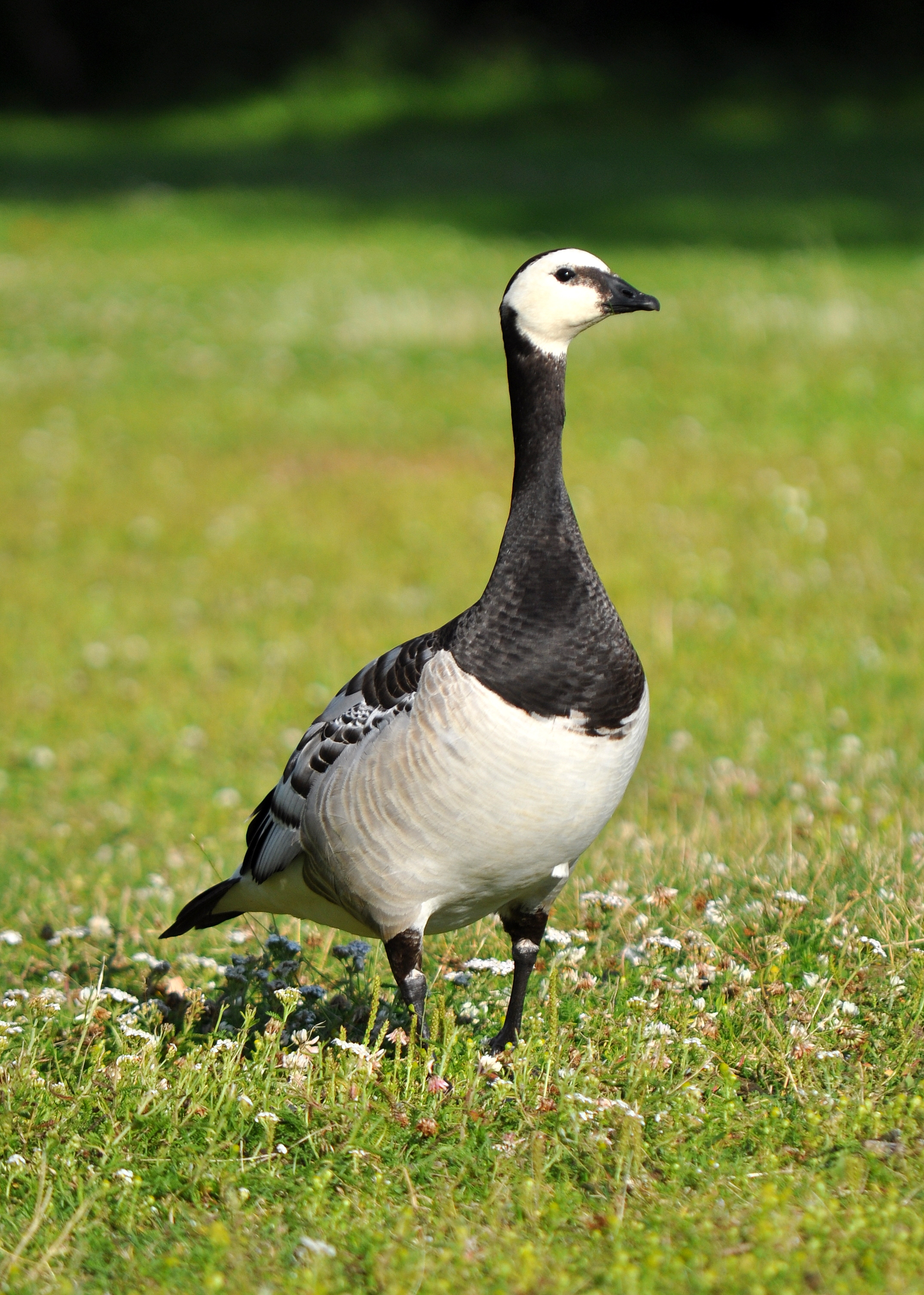 A Barnacle Goose standing in a field in Finland.